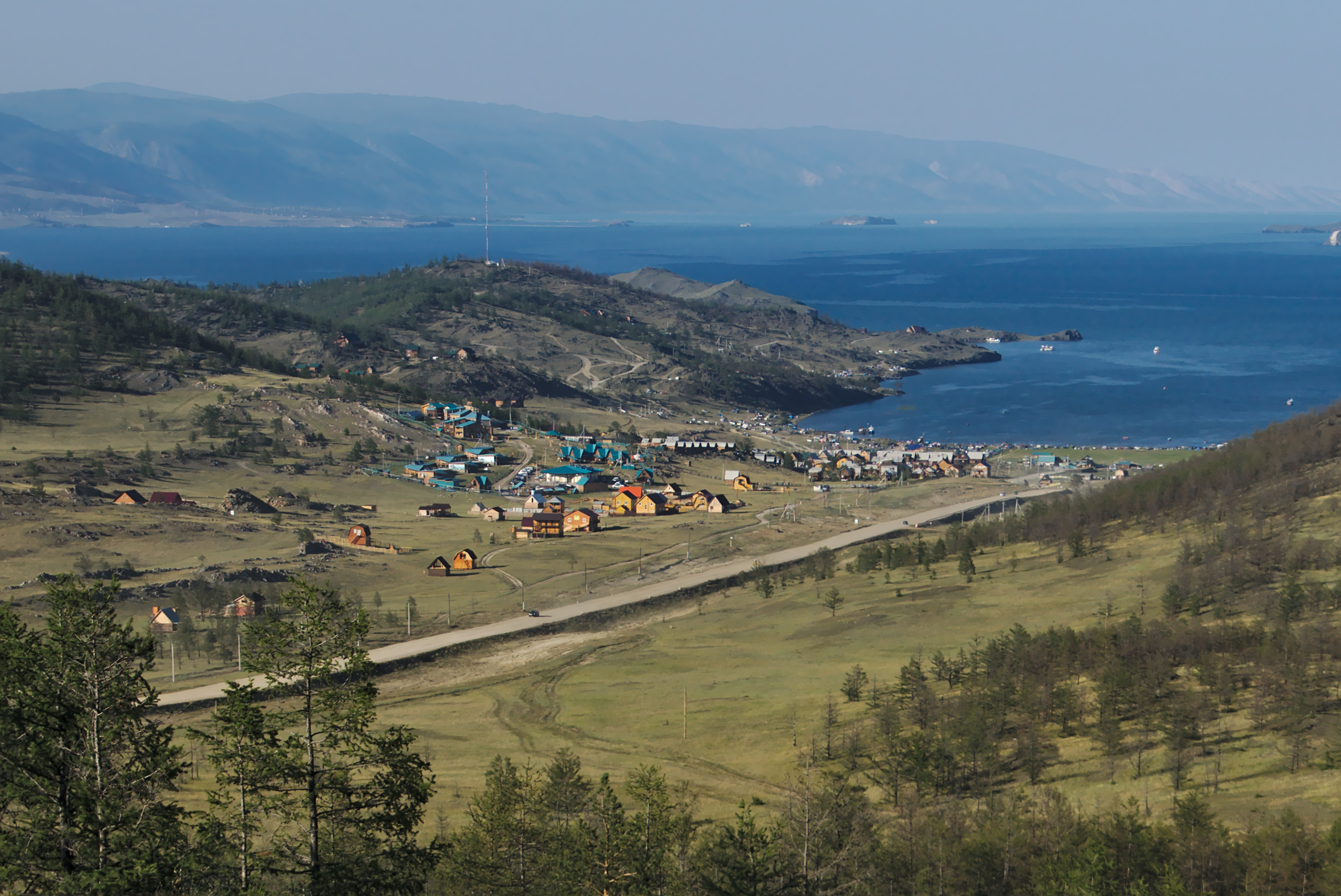 Kurkut (Куркут) village next to Lake Baikal, Russia